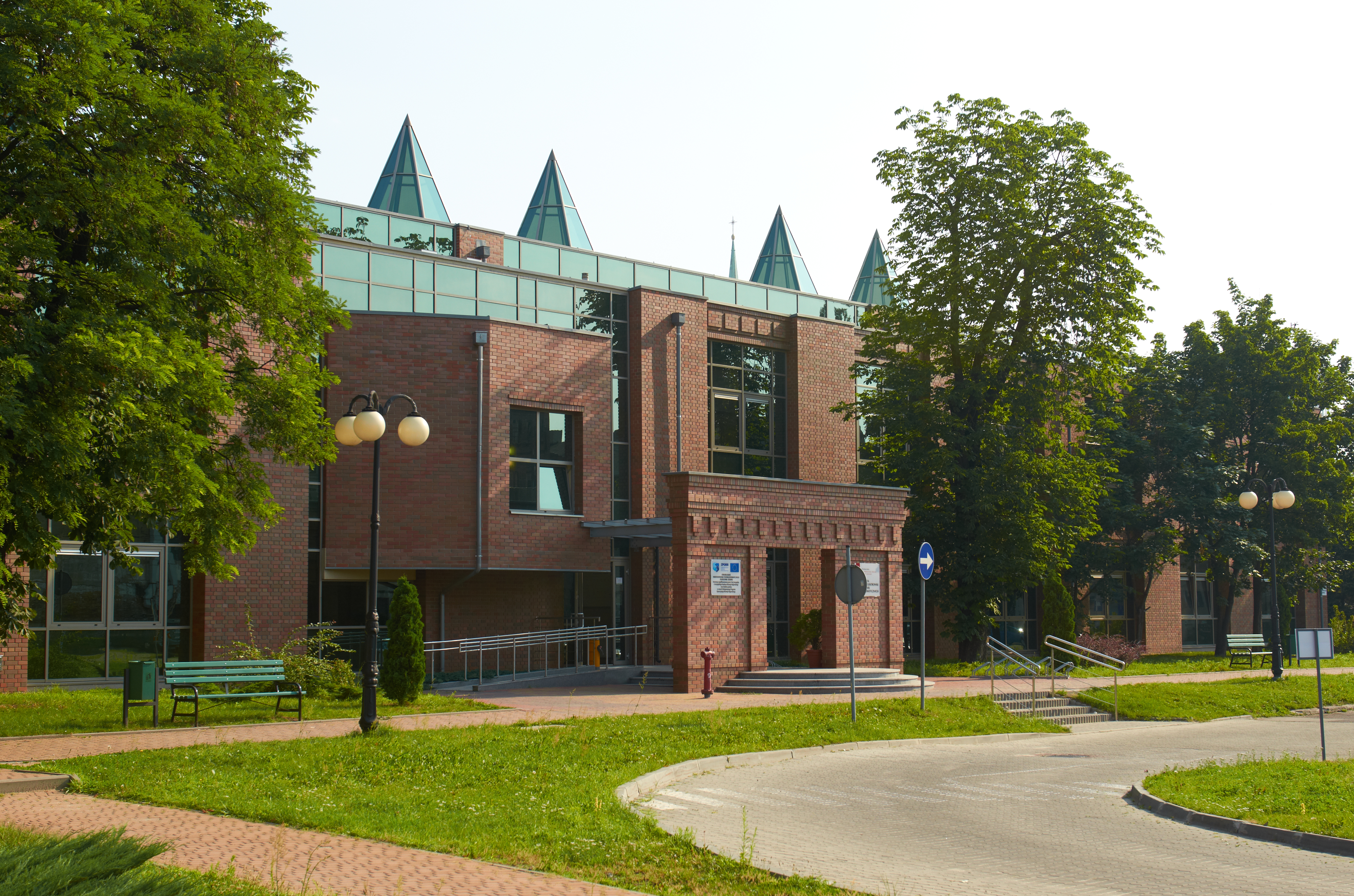 Headquarters of Department of Microelectronics and Computer Science LUT